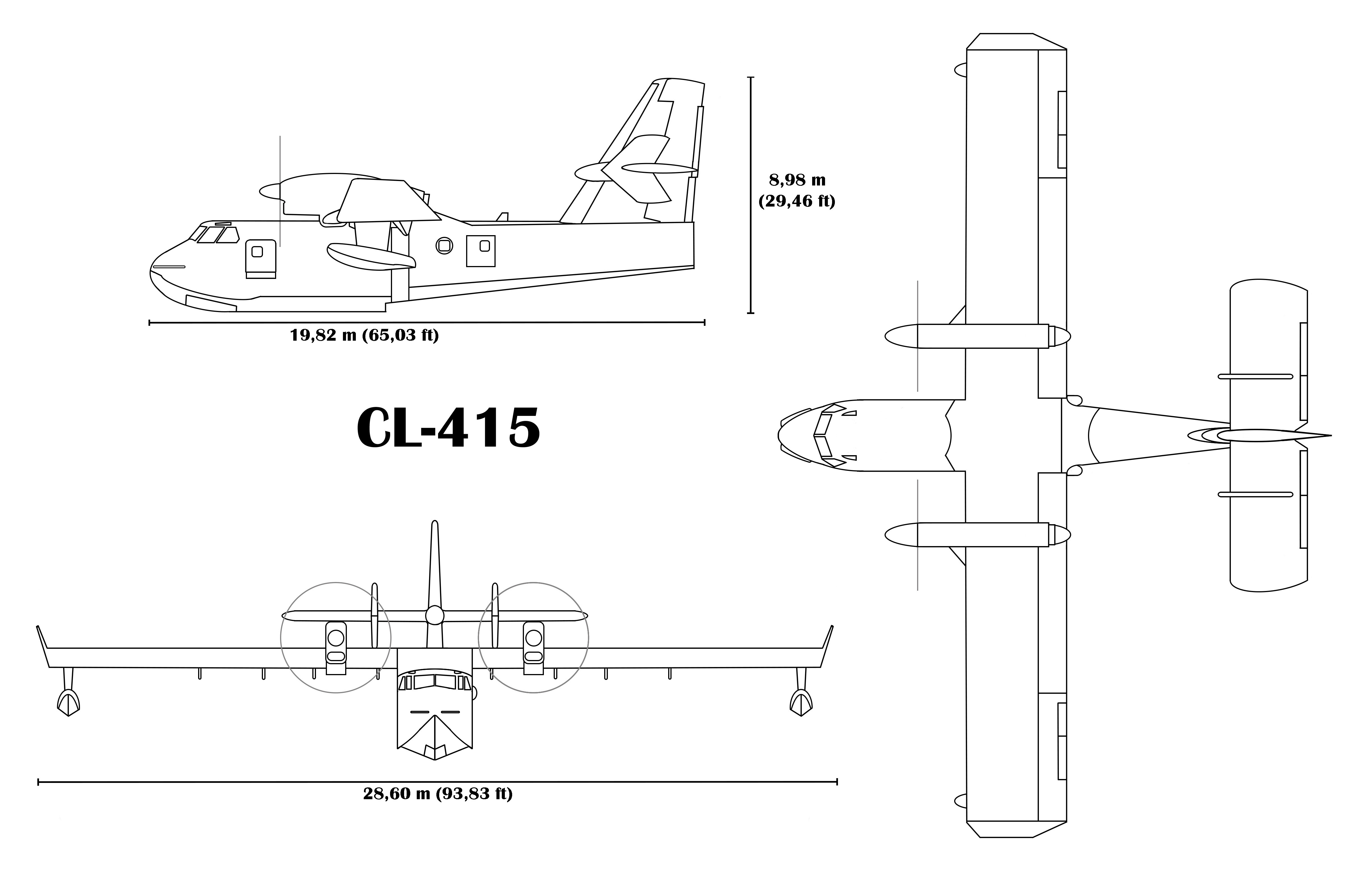 Perspective tables of Viking Air CL-415